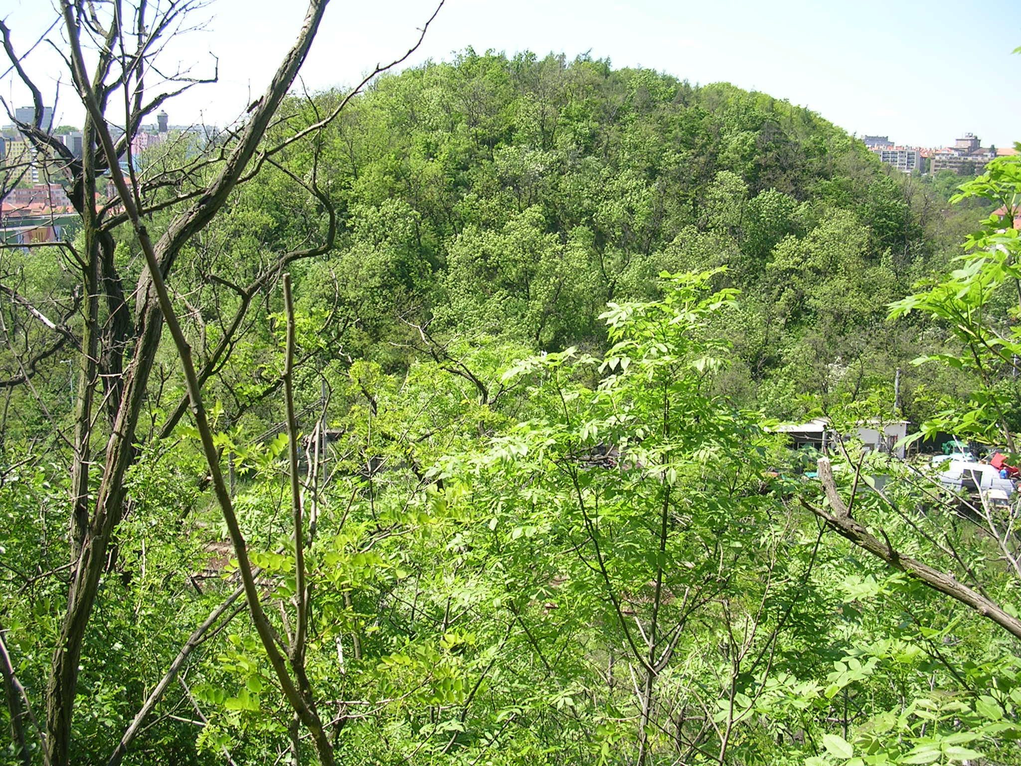 Bohdalec, Michle, Prague, the Czech Republic.